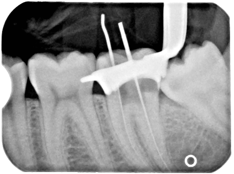 This is part of a series of dental X-rays of my mouth. If you know a little more about teeth than me, and are able to provide a better description of what this image shows, please edit this!